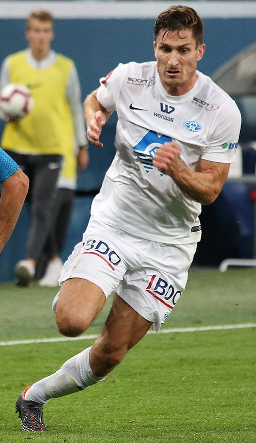 Zenit vs. Molde, 23 august 2018